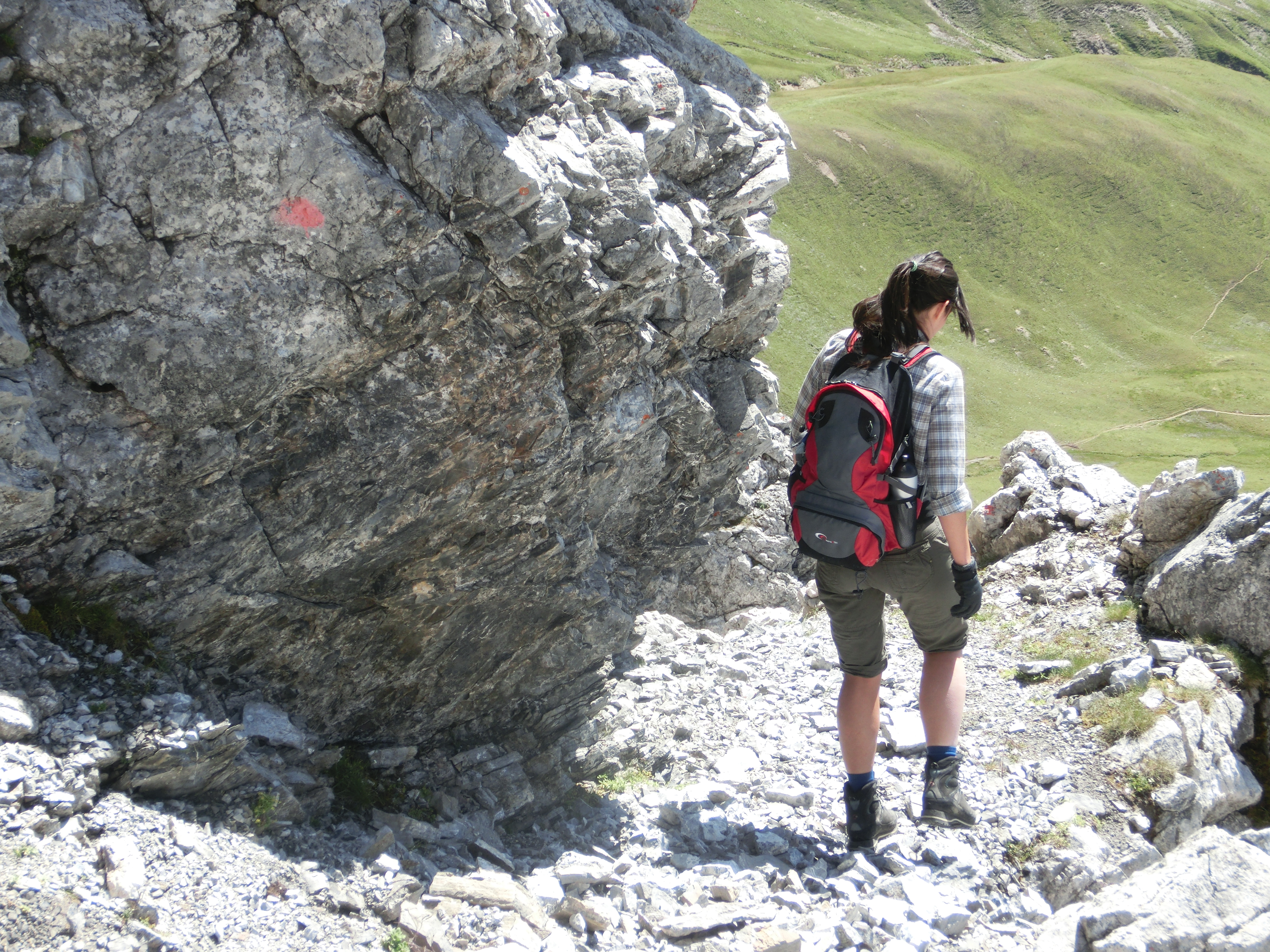 Alpinist on the south-ridge of the Chüpfenflue. The route is marked with red dots. Arosa, Davos, Grison, Switzerland